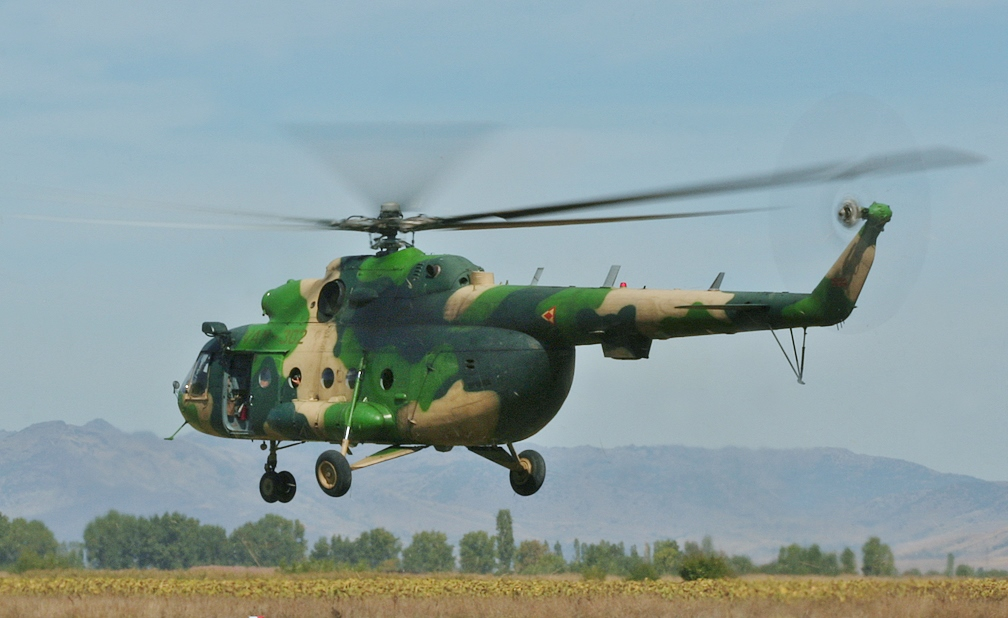 Mi-17 of the Macedonian Air Force taking off from Logovardi, Bitola.